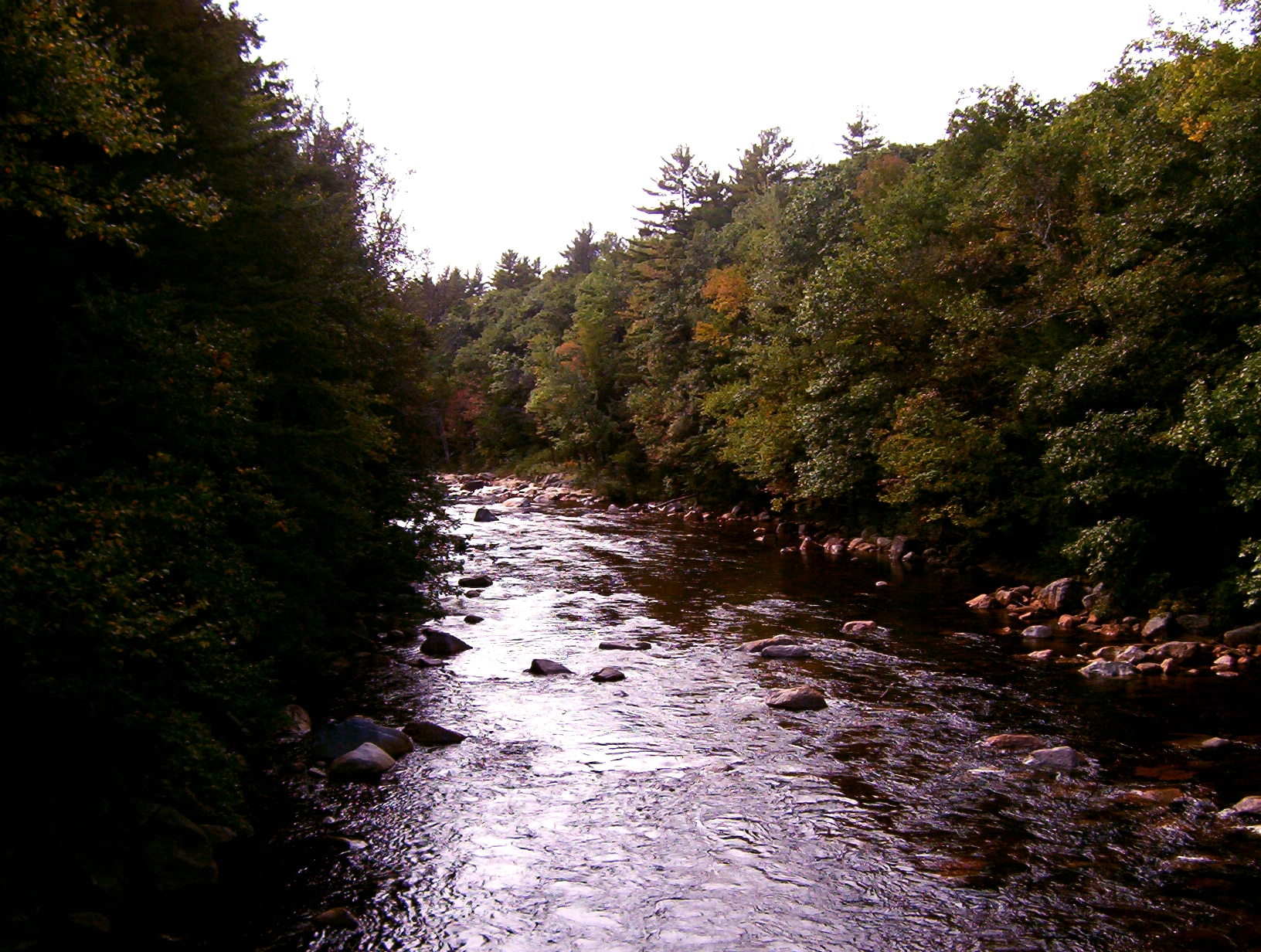 Matthew Teal, taken by me September 30th, 2005.